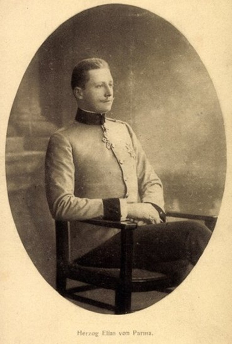 Elias Duke of Parma, Photo as Young Officer in military Uniform, approx 1910. (old Postcard from 1910s)